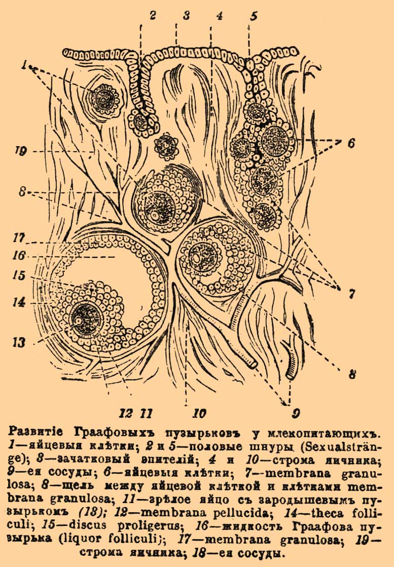 Illustration from Brockhaus and Efron Encyclopedic Dictionary (1890—1907)